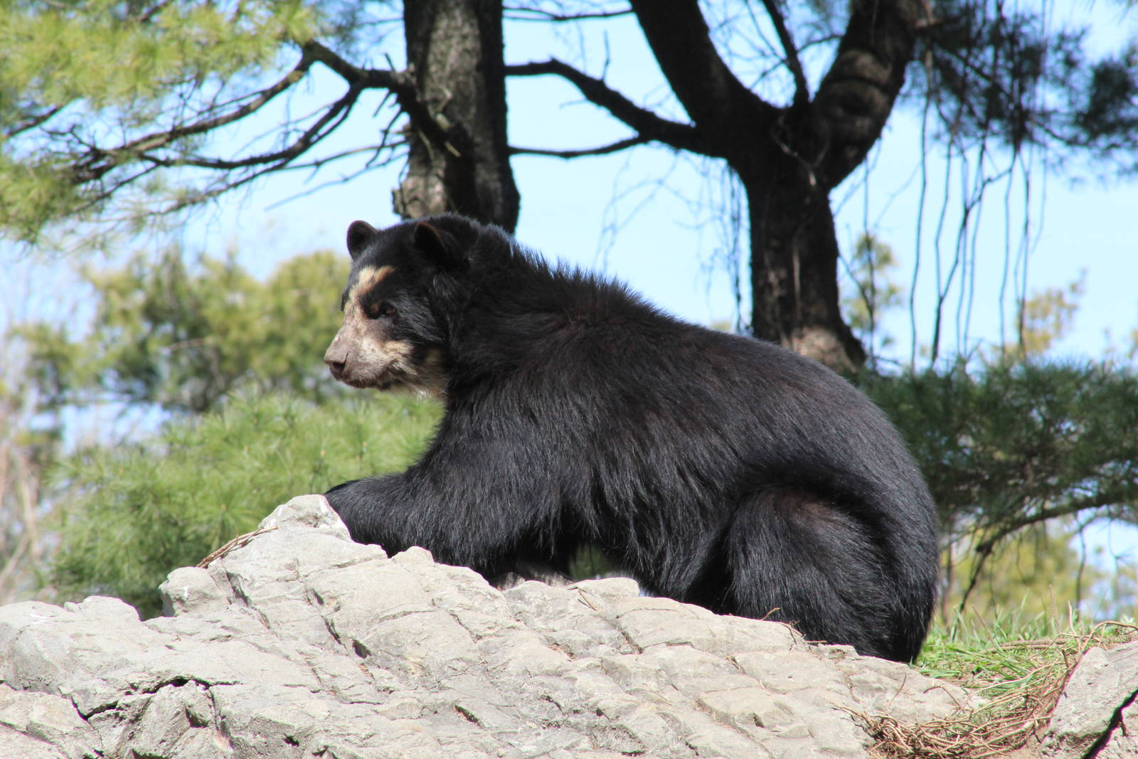 Andean Bear at WCS's Queens Zoo, 2016.